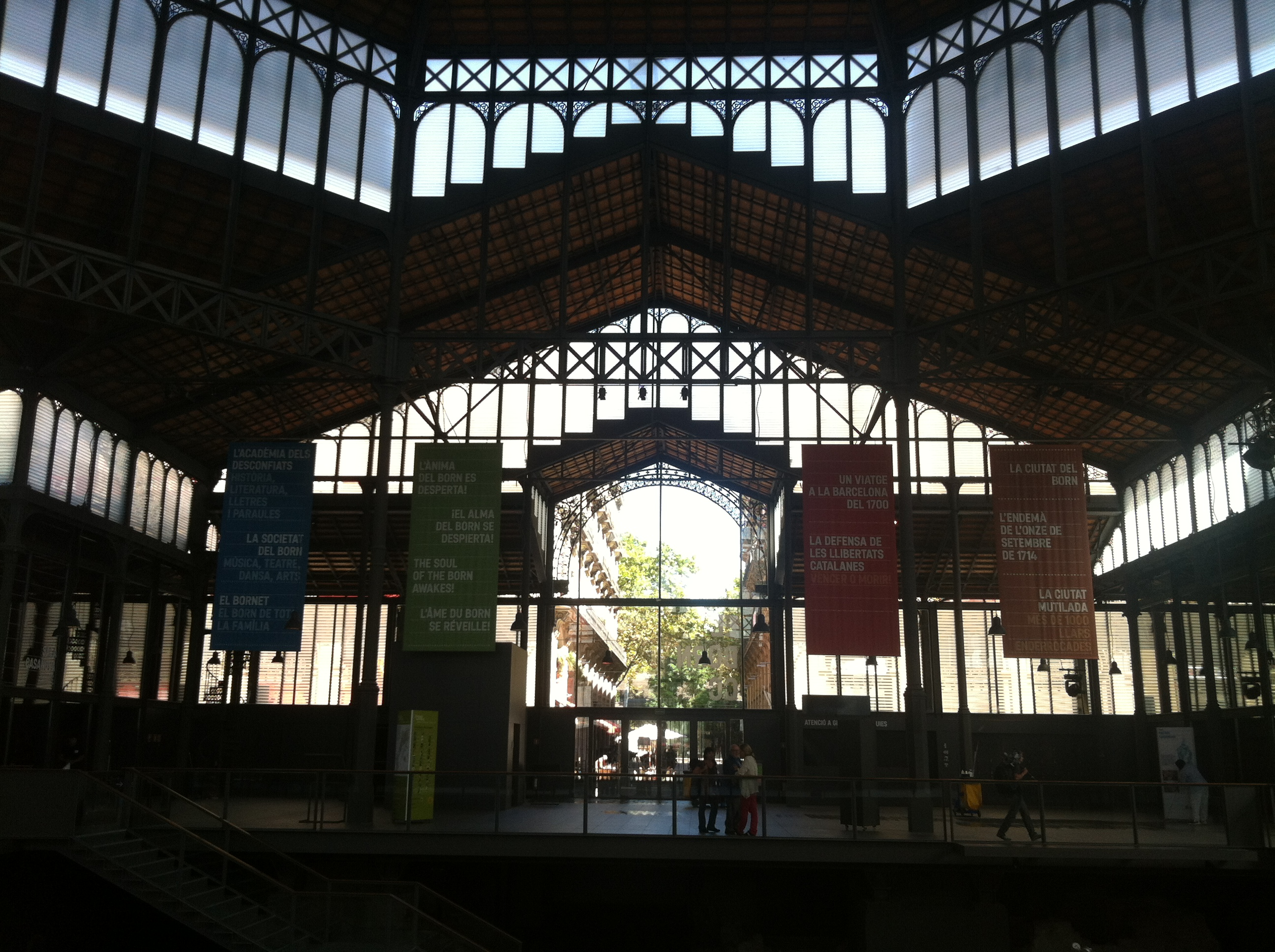 El BornCC, el born cultural center, in September 2013